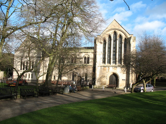 York Minster Library The library was once the private chapel attached to the Archbishop's Palace [of which little remains], and was a near ruin when it was restored circa 1810 by William Shout, the master mason of the Minster.